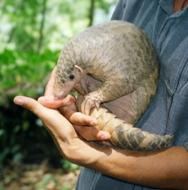 I took this photo of what I thought was an armadillo when visiting a monastery in Sikkim, India. After reading about pangolin on Wikipedia, I assume that what I saw was an Indian pangolin (Manis crassicaudata).